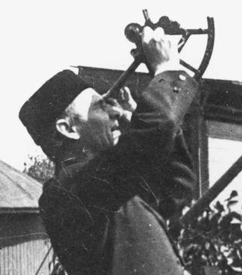 Norwegian professor of astronomy Hans Geelmuyden (1844–1920). Photo from around 1895.